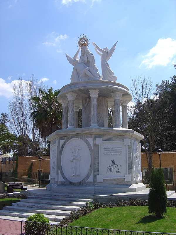 Our Lady of Sorrows, Ayamonte, Andalucia, Spain